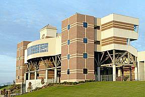 Kelly Shorts Stadium